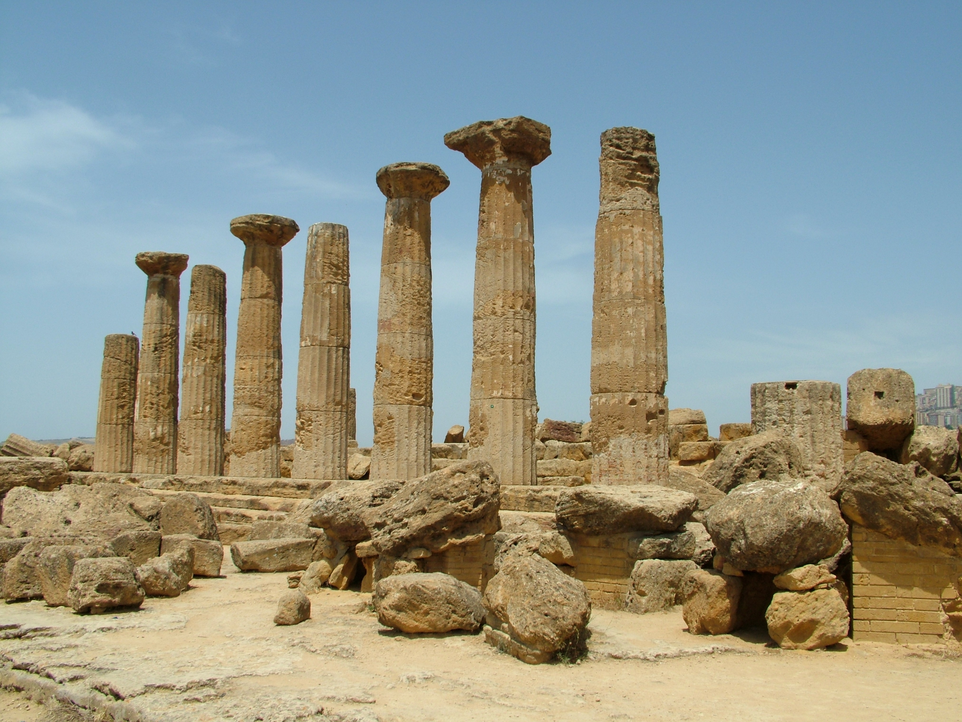 Temple of Heracles (temple A) in Agrigento".